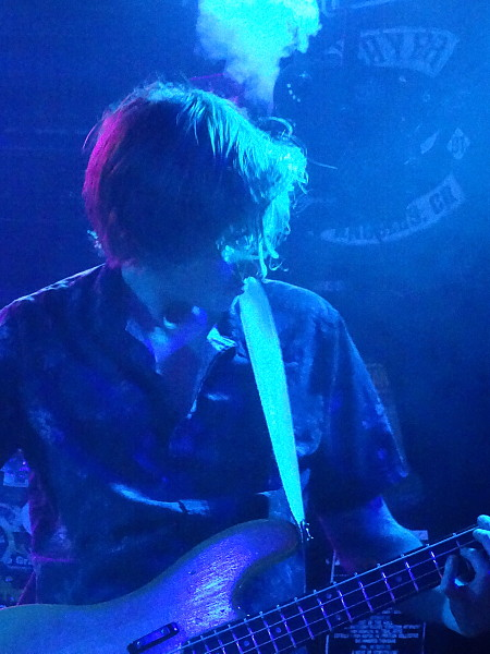 Close ups of members of Current Swell playing at The Saint in Asbury Park, NJ. Photo by LHCollins. 04062018.